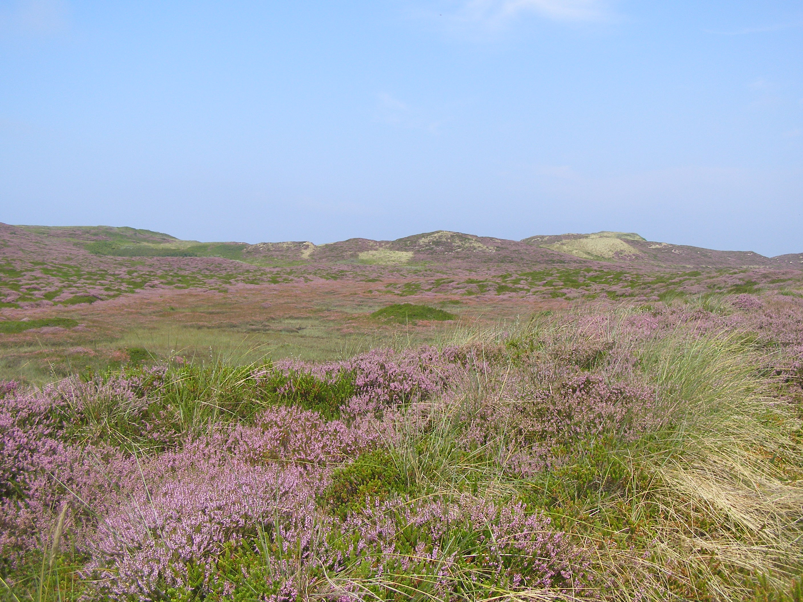 Heide und Dünenlandschaft, Nordsylt Heath and dunes, Sylt (northern part; Germany) Vřesoviště a duny na severním Syltu (Německo)